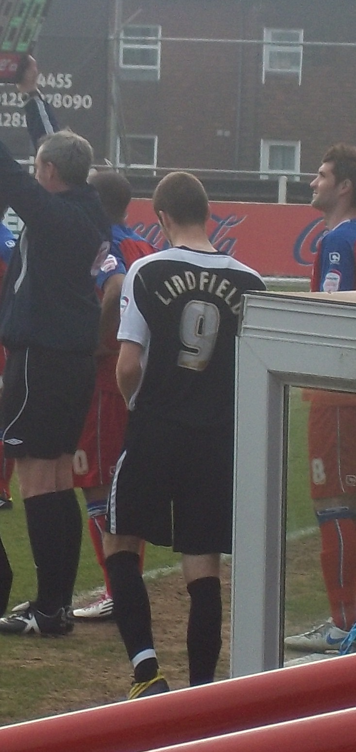 Craig Lindfield playing for Accrington Stanley